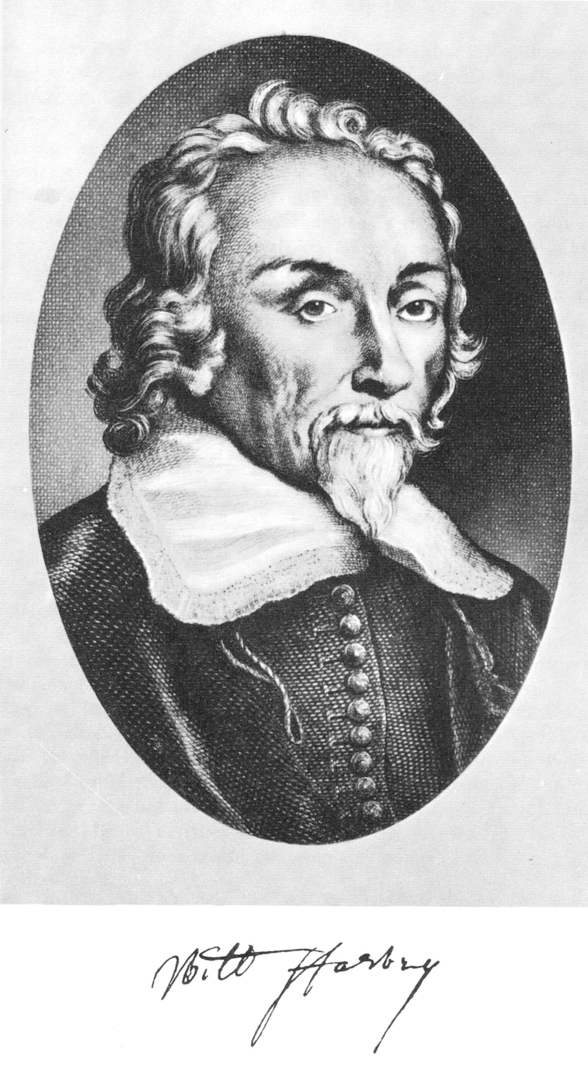 William Harvey (1578-1657) picture with signature